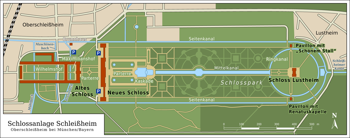 Map of Schleissheim Palace, Oberschleißheim near Munich, Germany (DE)